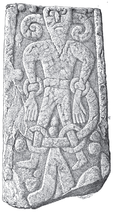 Captioned as "The Bound Devil. Kirkby Stephen." Plate before page 217. The stone features a depiction of a bound, horned figure, sometimes theorized as the Norse deity Loki.